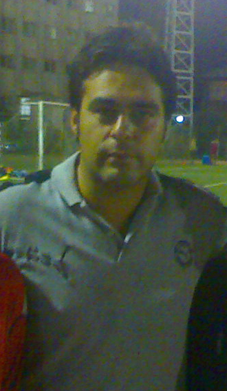 Atila Hejazi, Head Coach of Nasser Hejazi Football Academy, Shahid Keshvari Stadium, Tehran, Iran